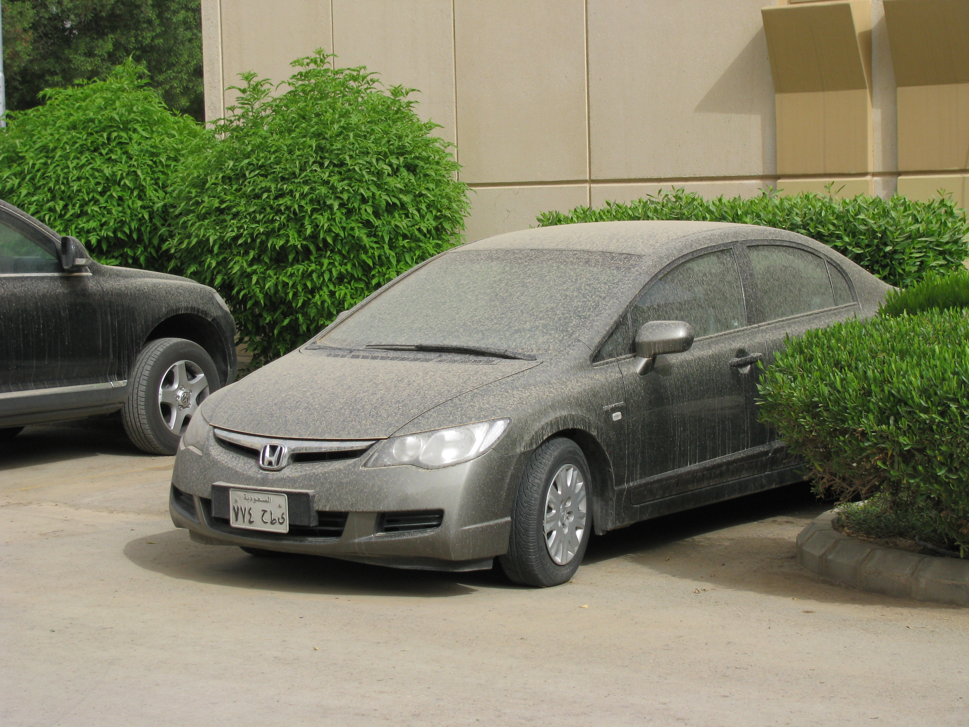 This was the second consecutive morning that our cars looked like this! At least it was good for the car washing business.